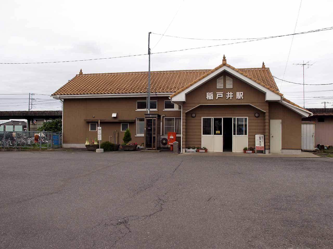 Kanto Railway Joso Line Inatoi station（関東鉄道常総線稲戸井駅駅舎）